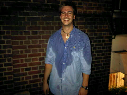 A man exhibits the effects of perspiration following exerting physical activity at a celidh.